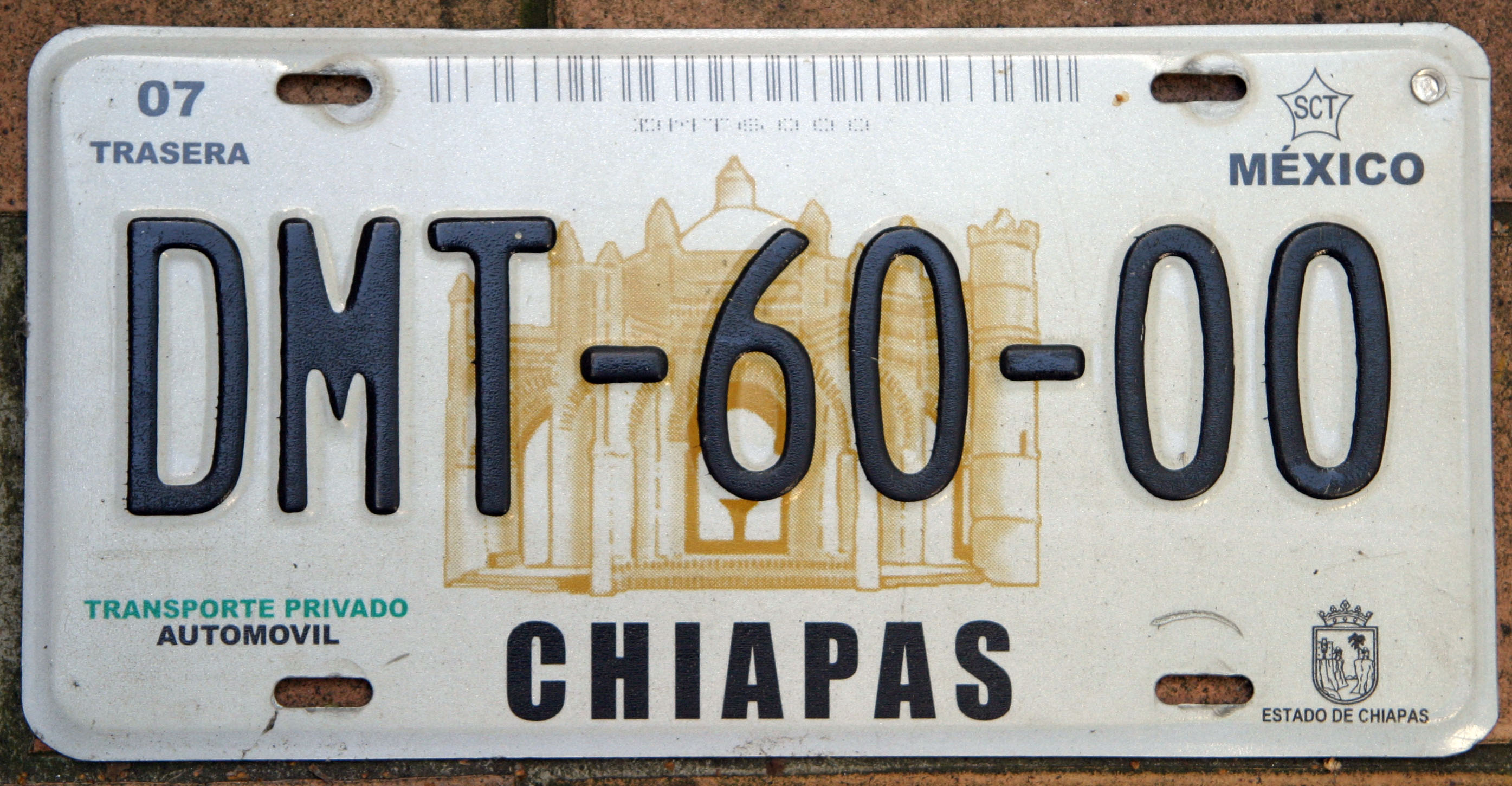 Chiapas (Mexico) car registration table Author: Petr Vilgus